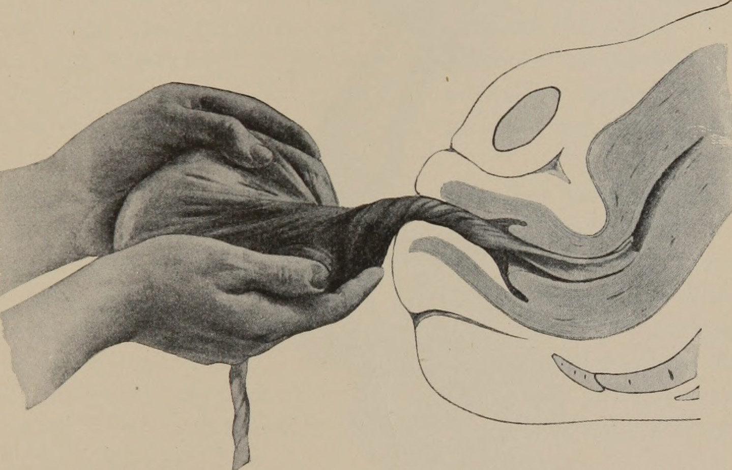 Identifier: Title: A nurse's handbook of obstetrics Year: 1915 (1910s) Authors: Cooke, Joseph Brown, 1868- author Gray, Carolyn E. (Carolyn Elizabeth), 1873-1938 Baker, Mary Alberta Subjects: Obstetrical Nursing Publisher: Text Appearing Before Image: Fig. 6i.—Granny knot. BREECH CASES. 155 In nearly every case, after a reasonable period of time, thewoman will have another labor-pain and the placenta will appearat the vulva much like a miniature counterpart of the fetal head.It should be received in the palm of the hand and directed into asterile bowl held for this purpose, and the string of membranesthat trails behind is to be extracted with the utmost gentlenessand deliberation, to prevent the detachment of any tags or frag-ments (Fig. 62). The method, formerly advised, of twisting themembranes into a firm cord by turning the placenta over and Text Appearing After Image: Pig. 62.—Delivery of placenta and membranes. (Bumm.) No traction should be used, butthe membranes allowed to fall out of the vagina by their own weight. over on itself no longer meets with general approval and is notto be recommended. All that is necessary is to extract the mem-branes from the vagina slowly and carefully, taking plenty oftime and using no force whatever. The placenta is to be preserved until the arrival of the physi-cian, in order that he may inspect it and make sure that it isintact. In precipitate breech cases, which occur when the infantis small or premature, there are two important points in themanagement which the nurse must not forget. Traction on the body, after it has passed through the vulva, c56 A NURSES HANDBOOK OF OBSTETRICS. must never be made, for it is essential to have the case progressas slowly as possible in order to secure complete dilatation of theparts and afford ample room for the passage of the head. Pressure must be made on the fundus as soon